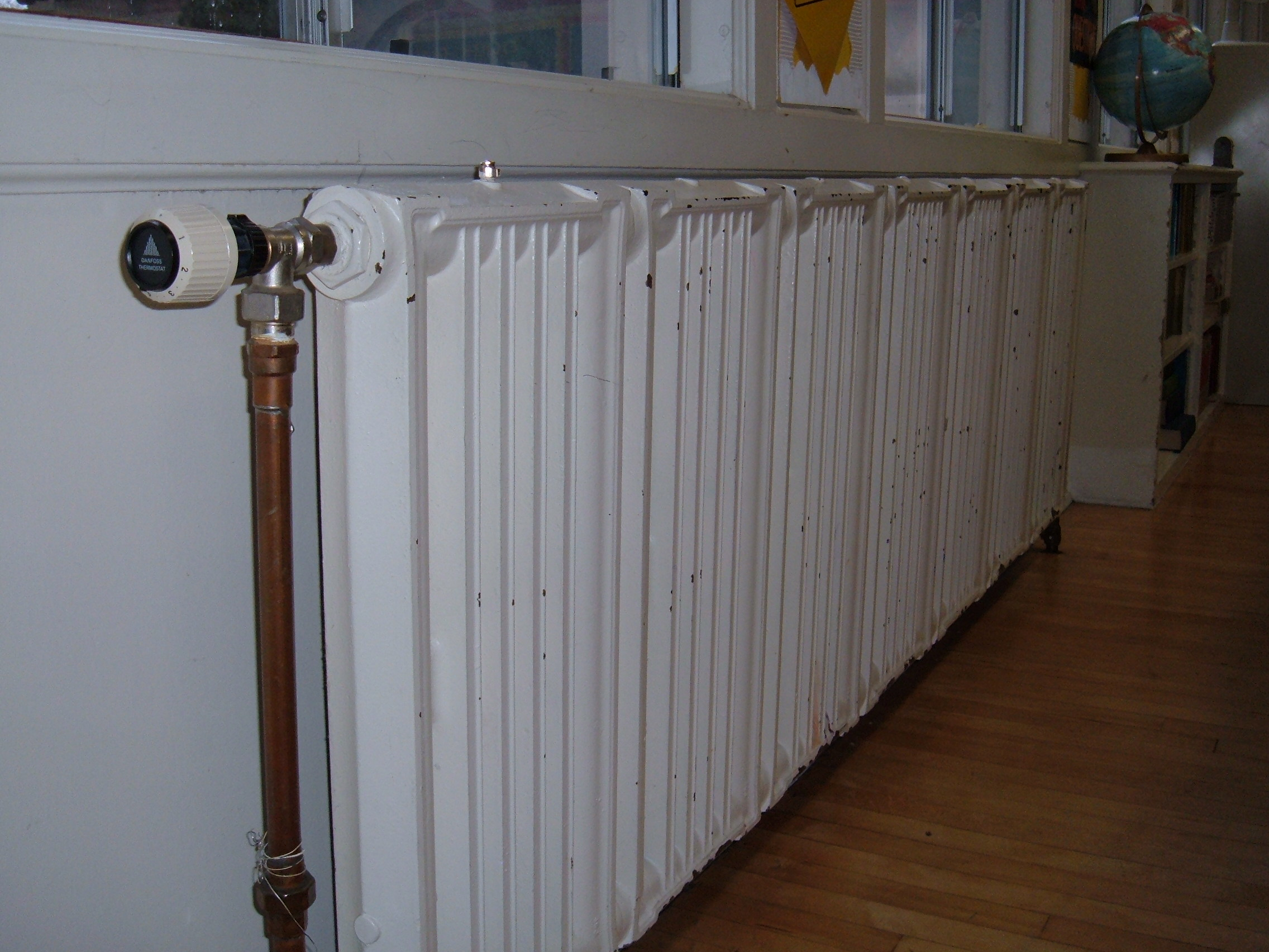 A Danfoss heater, found in a classroom in San Mateo, California.